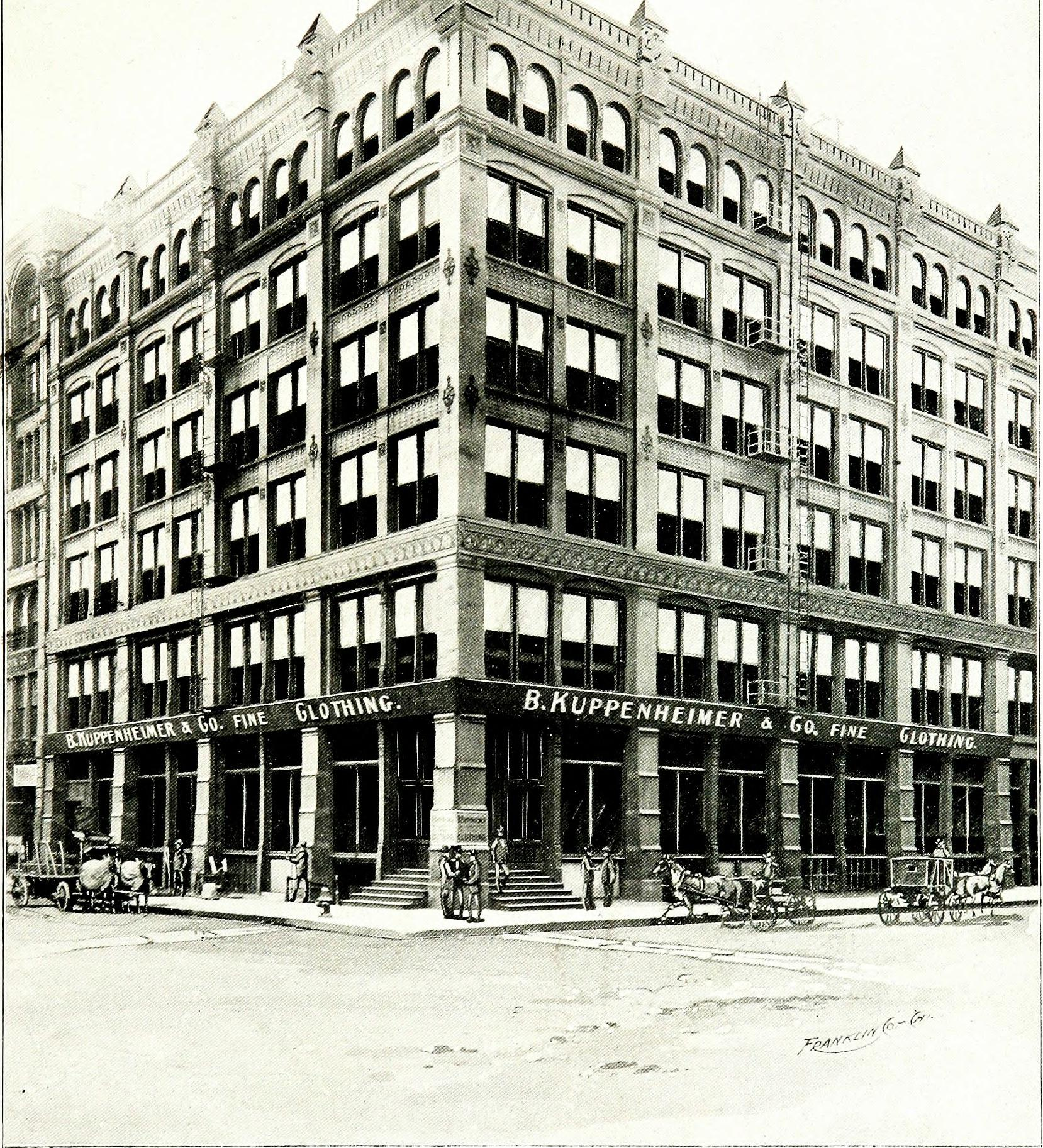 Title: The spring book of B. Kuppenheimer & Co. : illustrating a new century of clothing-radically different from the old-and incidentally depicting the more striking chances in men's wear during the past one hundred year Year: 1900 (1900s) Authors: Kuppenheimer, B., & Co Subjects: Clothing and dress Publisher: Chicago : Kuppenheimer & Co. Text Appearing Before Image: y Napoleon, thevery Byron, in some sevenyears, has become obsolete,and were now a foreigner tohis Europe. Thus is the Lawof Progress secured; and in clothes,as in all other external things,whatsoever, no fashion willcontinue. —Carlvle. 21 Mr. Dealer: A man who gets fooledin a suit or coat at onedealers, buys of anothernext time. Kuppenheimer guaran-teed if you want him to feelsafe and come back; anycheap sort if you dontcare and want to go outof business. MoNTAGNAC—A heavy napped cloth, a portion of the nap being wooly lobs, the rest straight napped.Moire—Watered. Nap—^The wooly surface of a fabric.Newmarket—An overcoat cut in the style of a frock coat; a surtout.Norfolk Jacket—A single breasted sack coat having two or three box plaits in back, two in front and a belt, of material. Most used for hunting and outdoor sports.Nuns Cloth—A soft, firm, clinging woolen fabric, light and strong; an entire suit weighs but thirty-two ounces on an average. 22 WHERE THE WORK IS DONE Text Appearing After Image: 105,000 square feet devoted to making andselling the best clothing in the land—theguaranteed bring-it-back-if-necessary kind. XUl SPRING BOOK MDCCCC